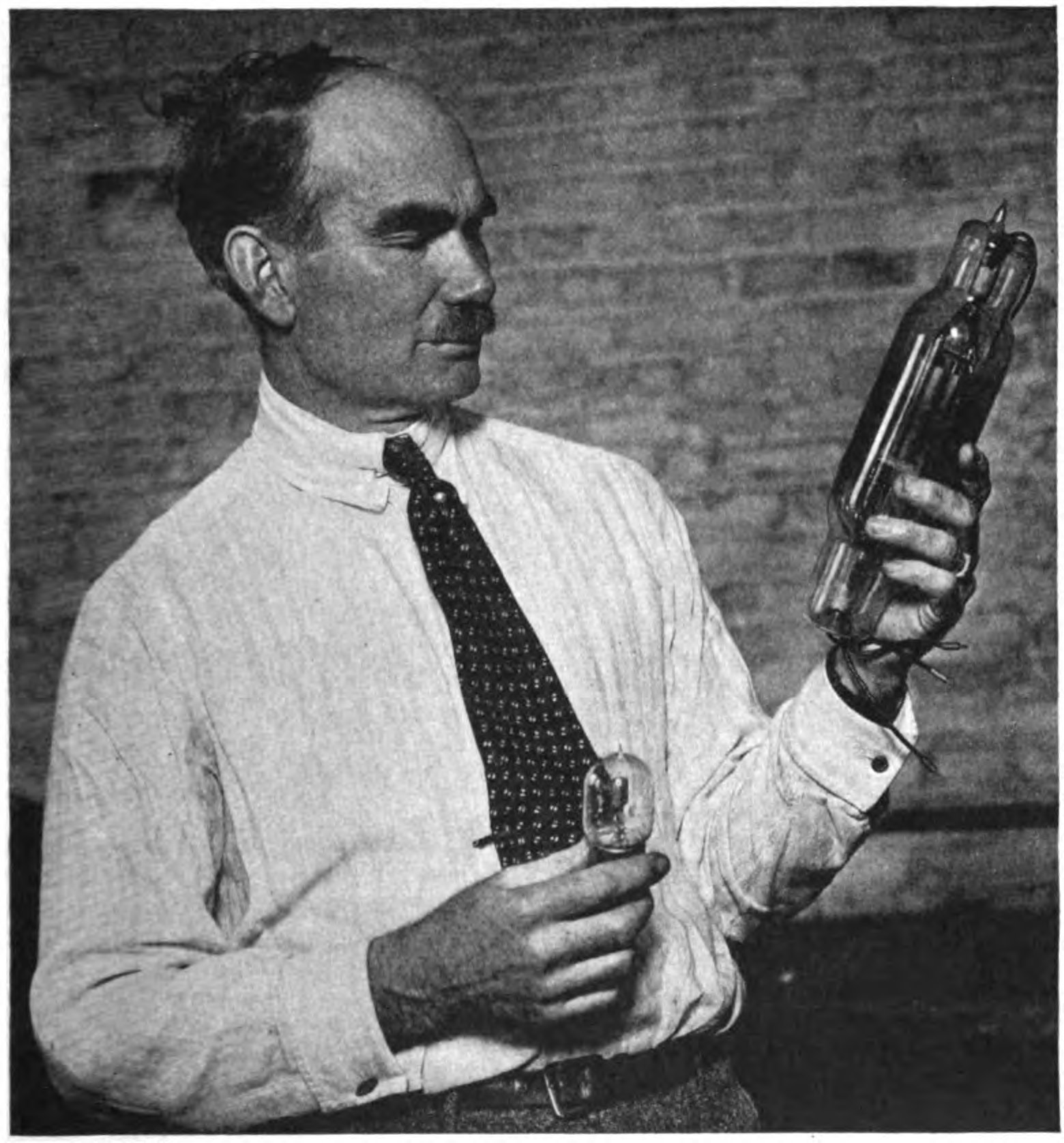 American electrical engineer Lee De Forest, the inventor of the triode vacuum tube, with two of his tubes. De Forest's three electrode tube, which he invented in 1906 and called the "Audion", was the first electrical device which could amplify, and began the field of electronics. The small tube (left) was a low power one watt Audion used in radio receivers. The large tube (right) was a high power 250 watt tube used in radio transmitters, which De Forest called an "oscillion". De Forest began making it in 1919 so that may be the date of this picture.